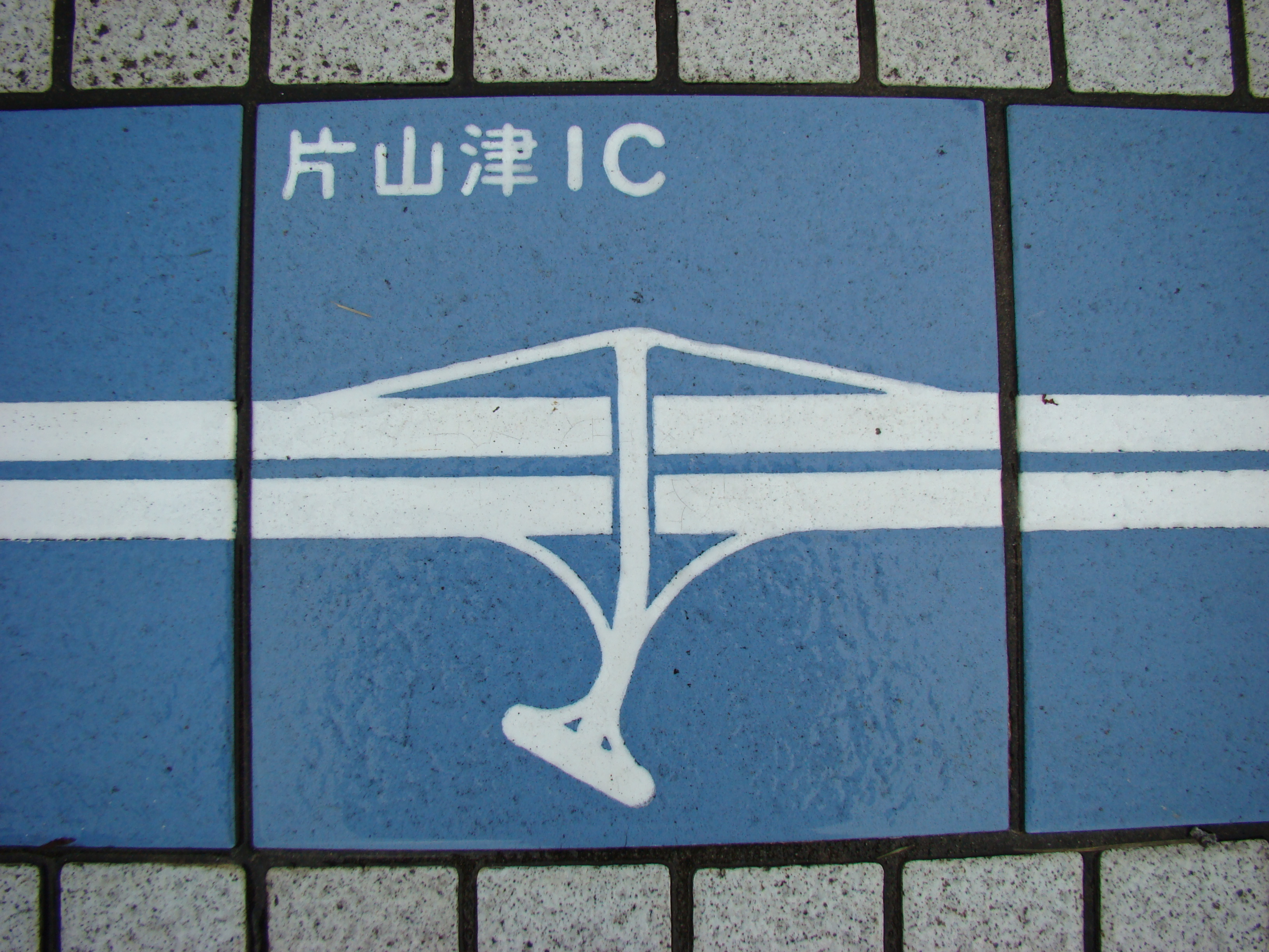 The tile which designed a shape of the Katayamazu Interchange（Hokuriku Expressway）（There is this tile in Hokuriku Expressway Nadachi-Tanihama Service Area.）. Place - Chayagahara,Joetsu City,Niigata Prefecture,Japan Date - August 9, 2009 Format - JPEG, 3264x2448pixel, 24bit colors. Photographer - NALA Wiki (talk)